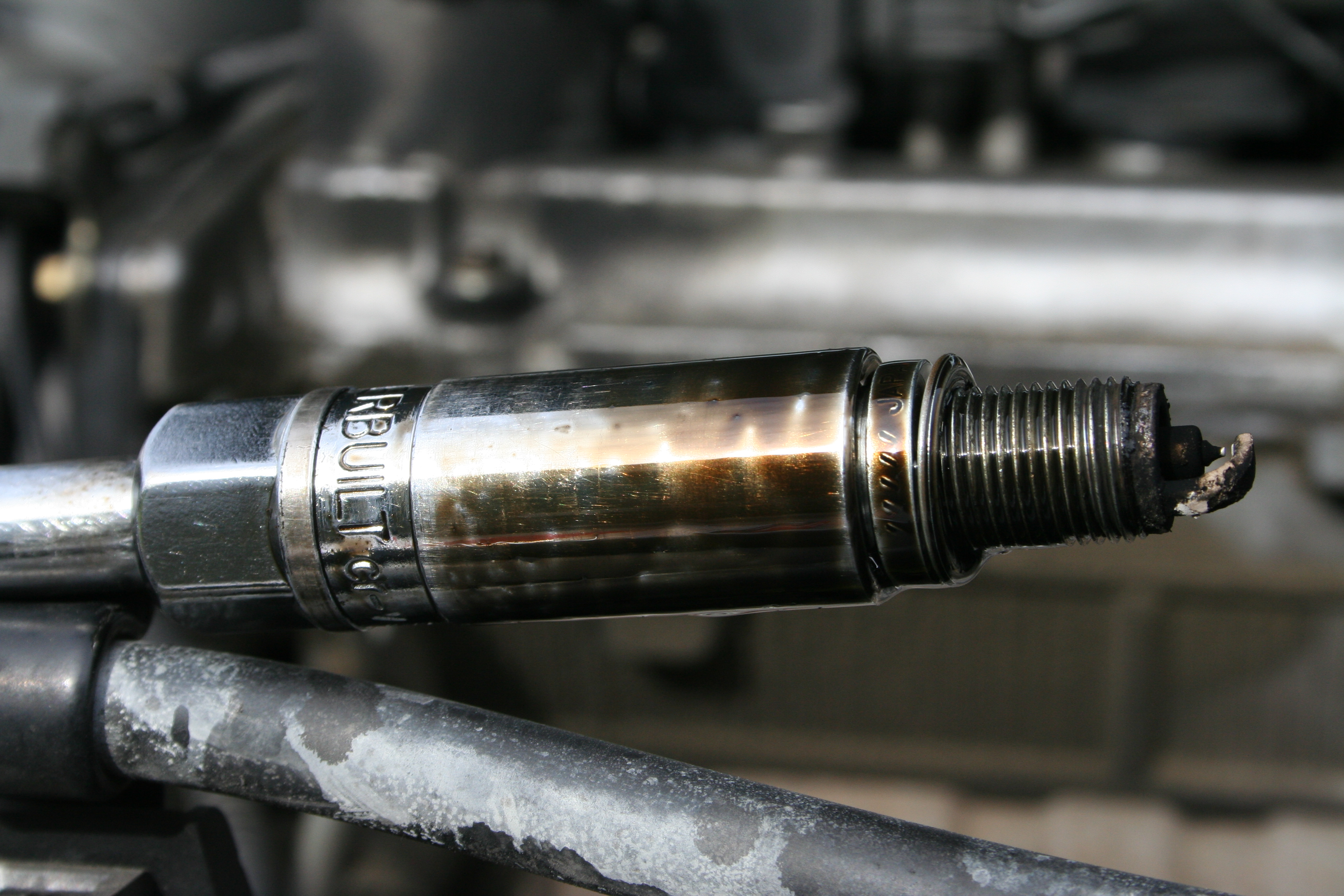 Spark plugs